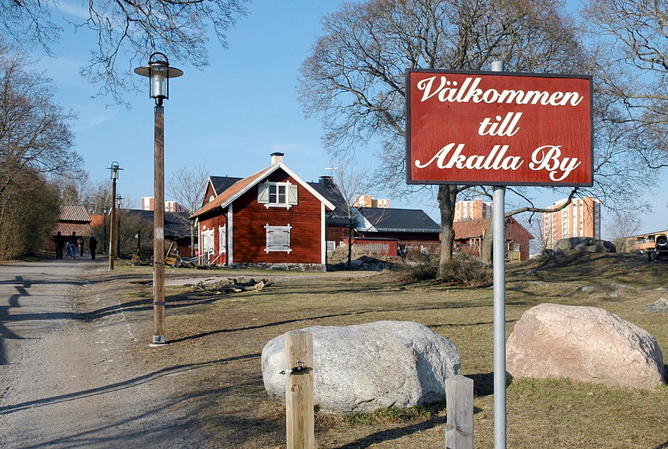 Akalla By - a rural village between the suburbs of Stockholm. Photograph by Henryk Kotowski